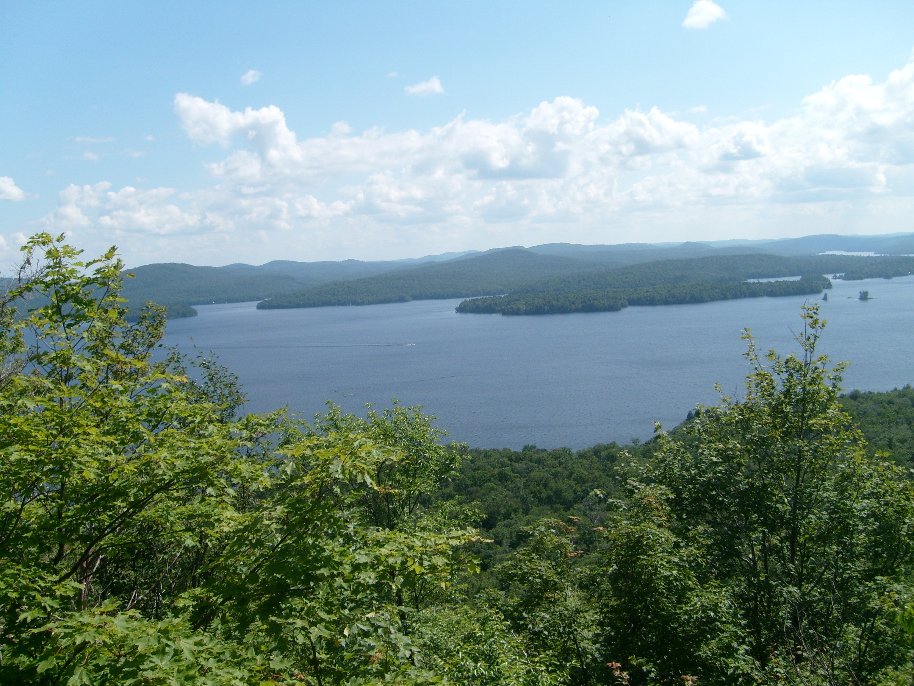 View from Bear Mountain lookout, near the top of Bear Mountain, looking S/SW out over Cranberry Lake (NY). Little Buck island is off to the left and large Joe Indian island starting near middle and going off to the right (it is the one with the small "bay" visible).